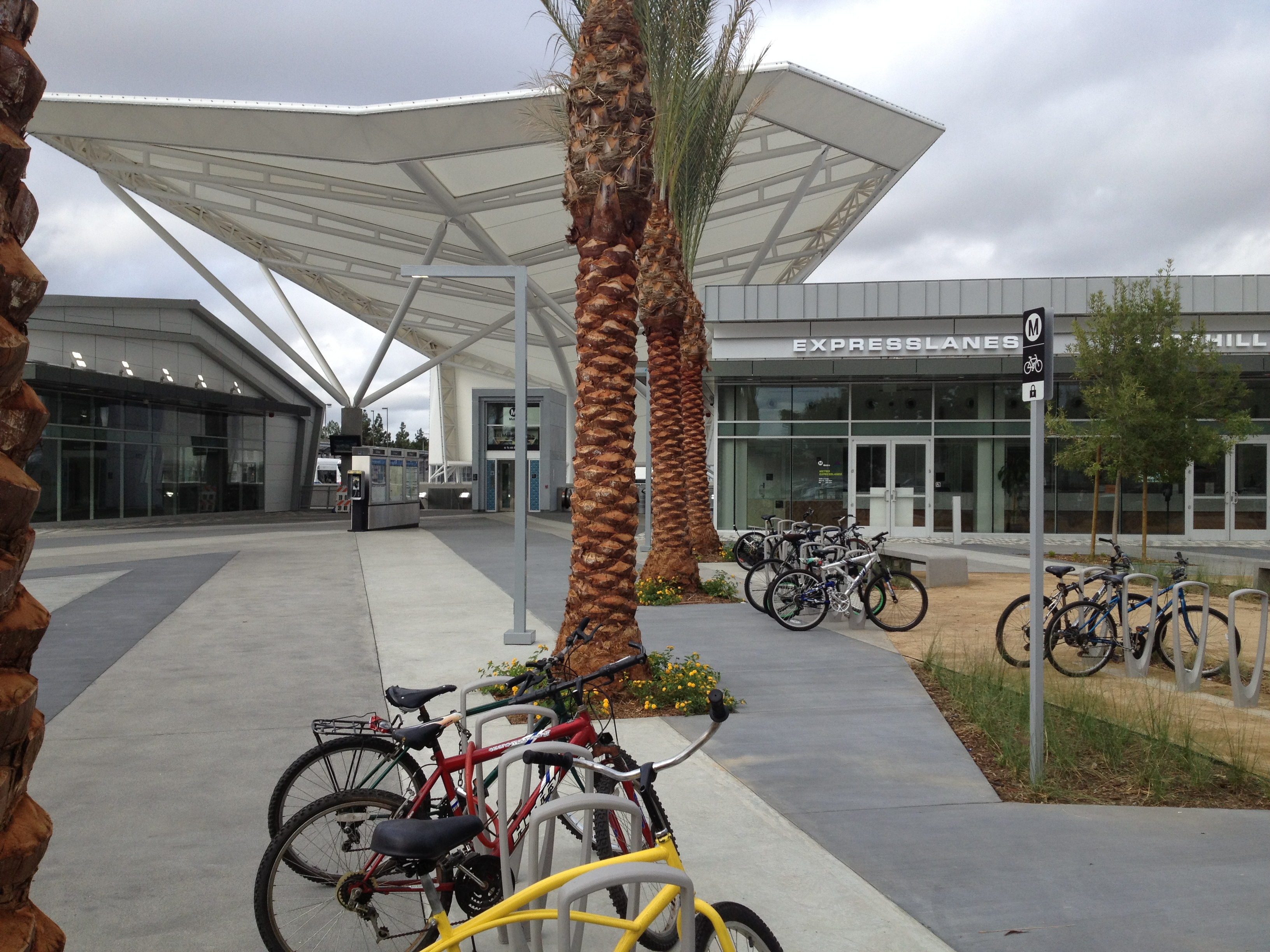 Cycle parking outside the refurbished El Monte Station